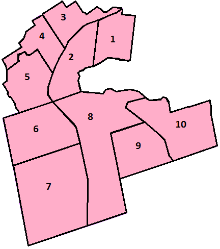 Map of Barrie, Ontario's wards used since 2014